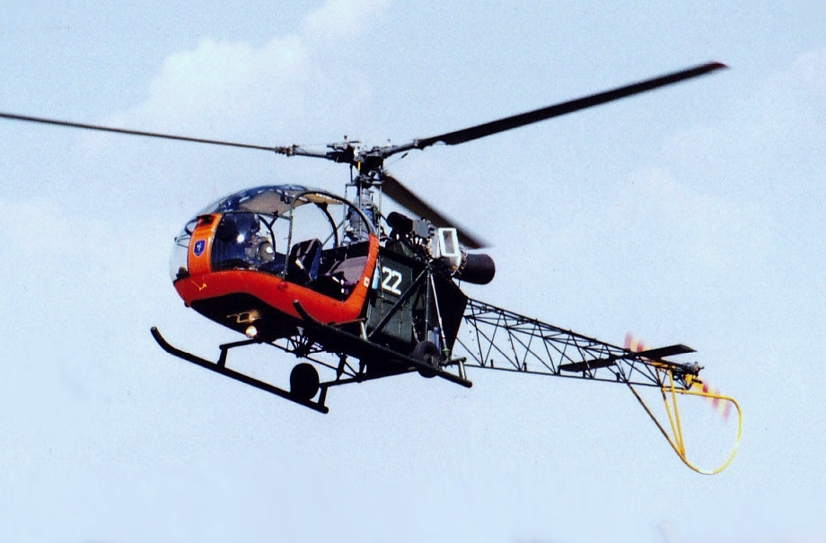 SAAF Museum Alouette II